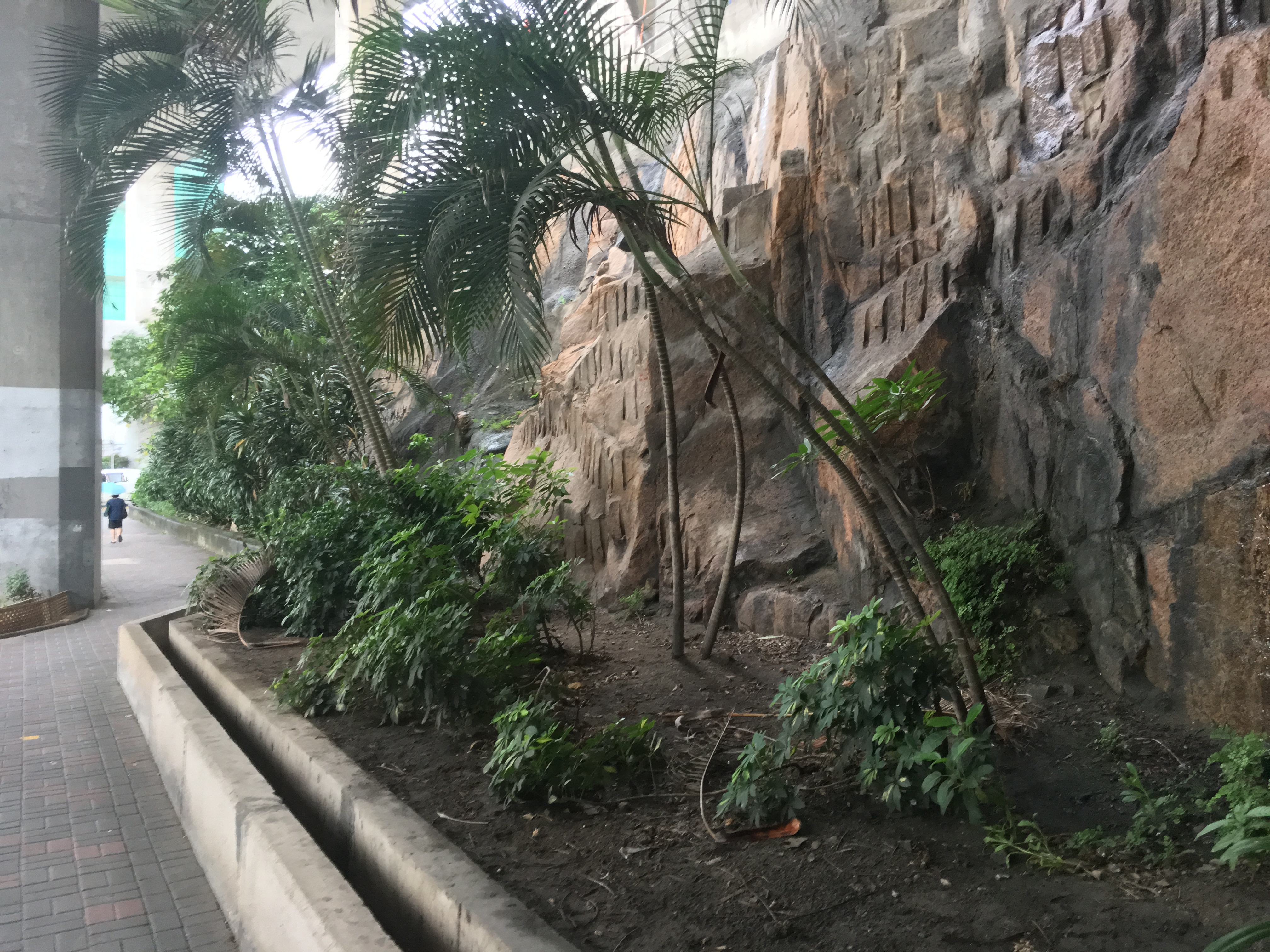 The pedestrian road of Wai Fat Road, linking between the Lei Yue Mun Road and Cha Kwo Ling Road.